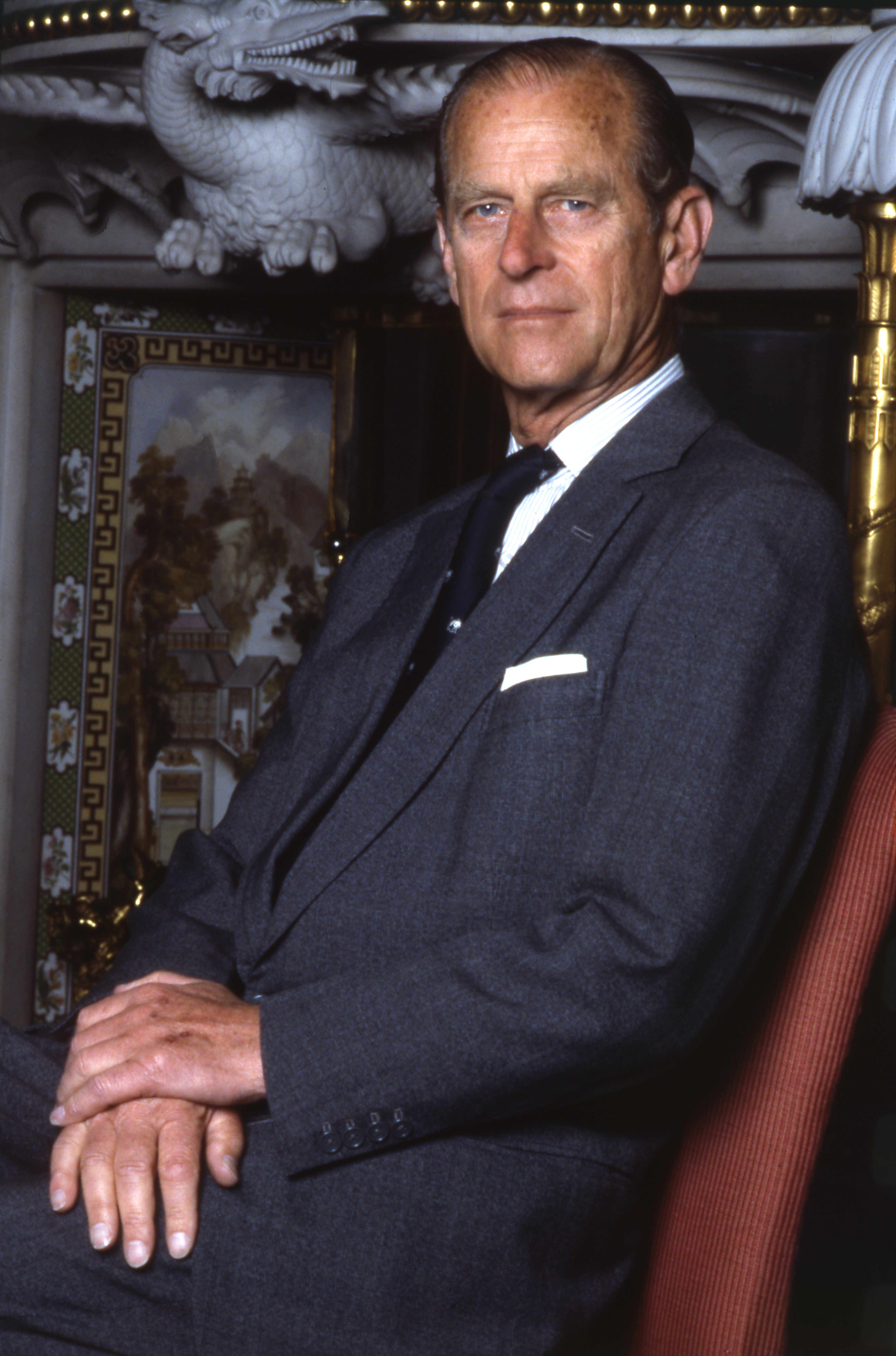 HRH The Duke of Edinburgh in the Chinese room, Buckingham Palace, London